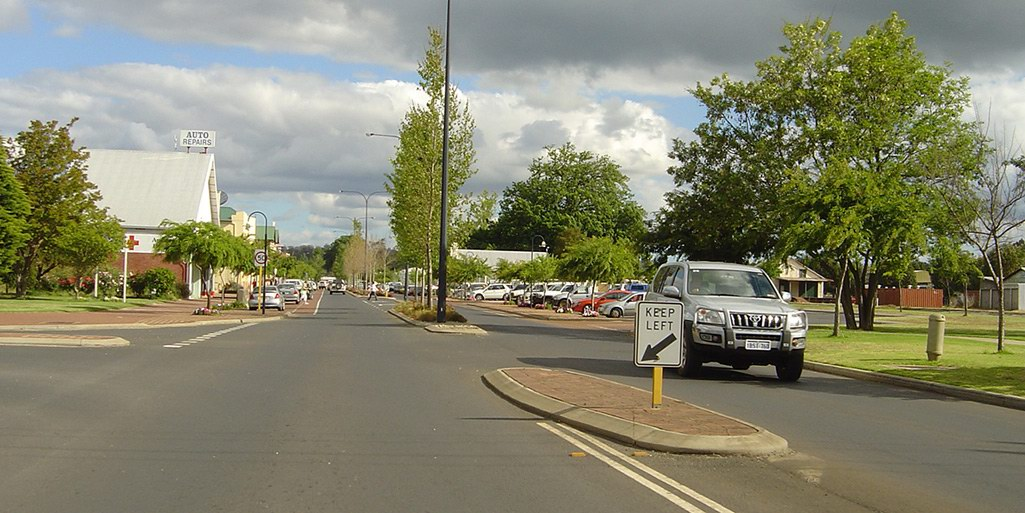 Taken by JAW 11th November 2005 Donnybrook, Western Australia Donnybrook town on the South West Highway